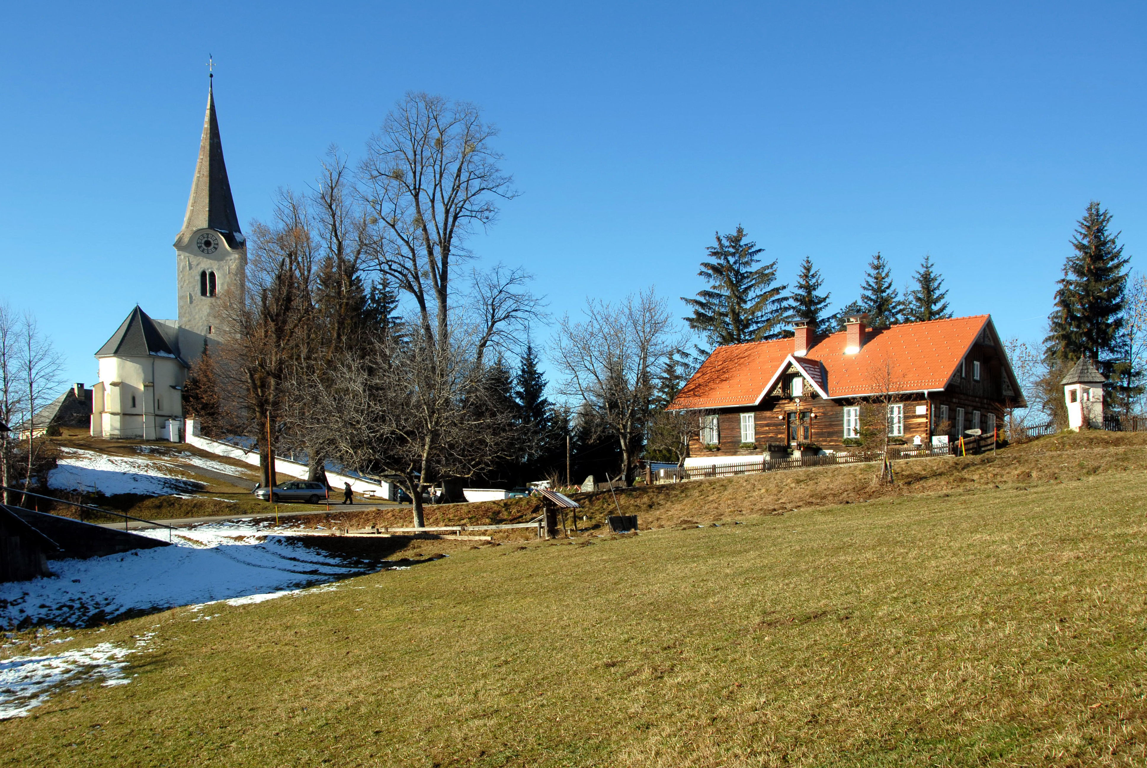 Parish church, elementary school and wayside shrine at Saint Oswald, municipality Eberstein (Kärnten), district Saint Veit on the Glan, Carinthia / Austria / EU